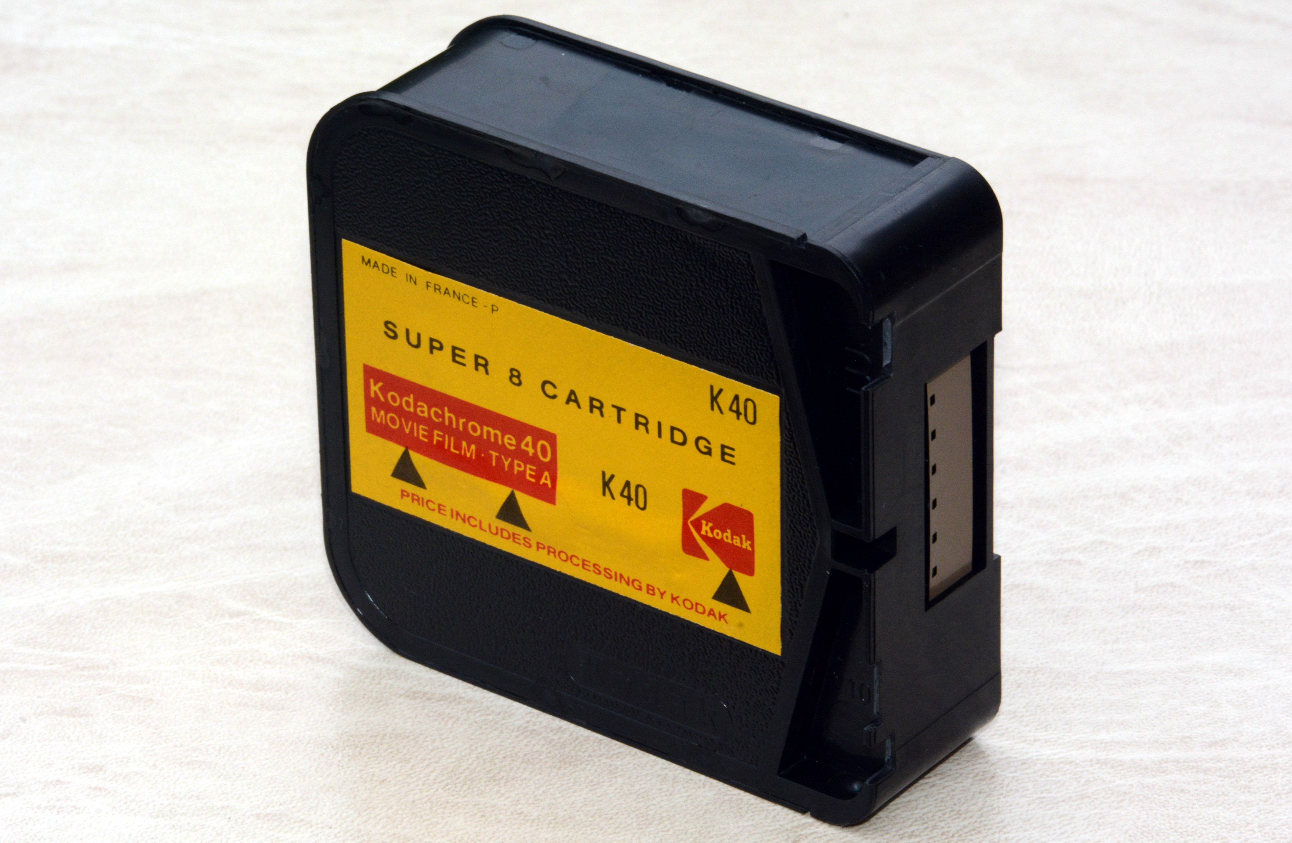 Kodak Kodachrome 40, Type A, Super 8 film cartridge